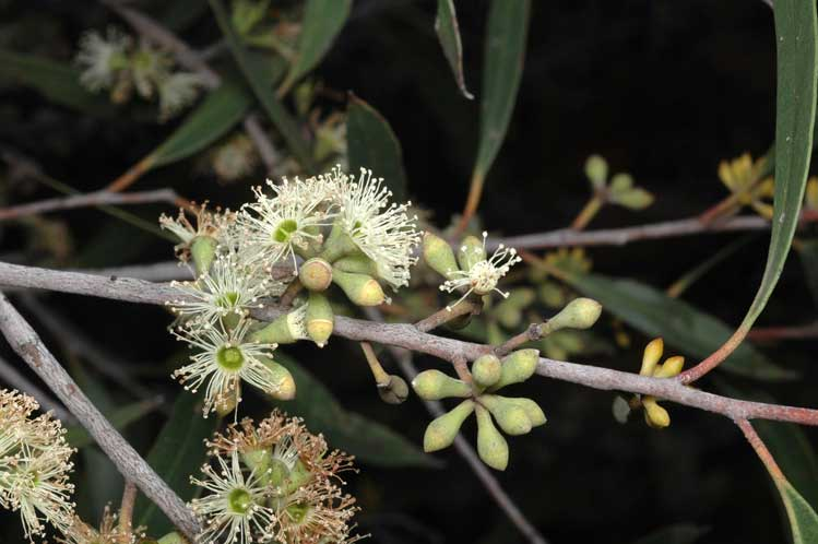 Flower buds of Eucalyptus ligustrina in the Australian National Botanic Gardens